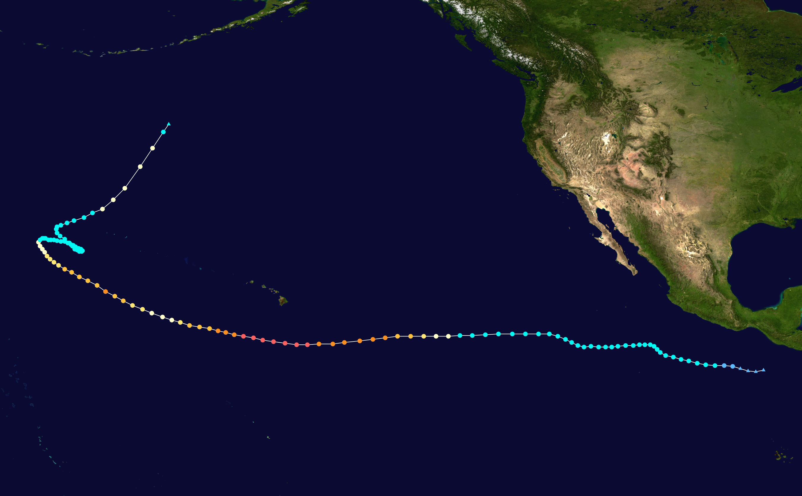 Hurricane John (1994) track. Uses the color scheme from the Saffir-Simpson Hurricane Scale. The points show the location of each storm at six-hour intervals. The colour represents the storm's maximum sustained wind speeds as classified in the Saffir-Simpson Hurricane Scale (see below), and the shape of the data points represent the nature of the storm. Saffir–Simpson scale Tropical depression≤38 mph≤62 km/h Category 3111–129 mph178–208 km/h Tropical storm39–73 mph63–118 km/h Category 4130–156 mph209–251 km/h Category 174–95 mph119–153 km/h Category 5≥157 mph≥252 km/h Category 296–110 mph154–177 km/h Unknown Storm type Tropical cyclone Subtropical cyclone Extratropical cyclone / Remnant low / Tropical disturbance / Monsoon depression